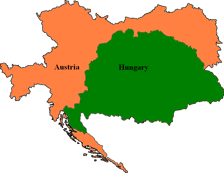 Two parts of Austria-Hungary: Austrian Empire (officially "The Kingdoms and Lands represented in the Imperial Council" or unoff. "Cisleithania") and Kingdom of Hungary (off. "Lands of the Crown of Saint Stephen" or unoff. "Transleithania") before occupation of Bosnia-Herzegovina in 1878.